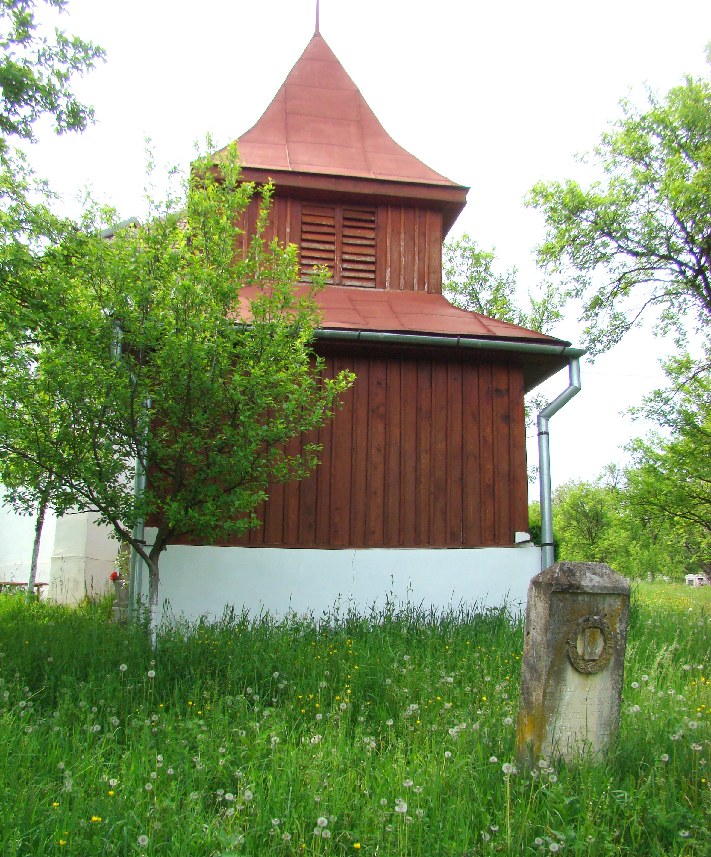 Reformed church in Pălatca, Cluj county, Romania